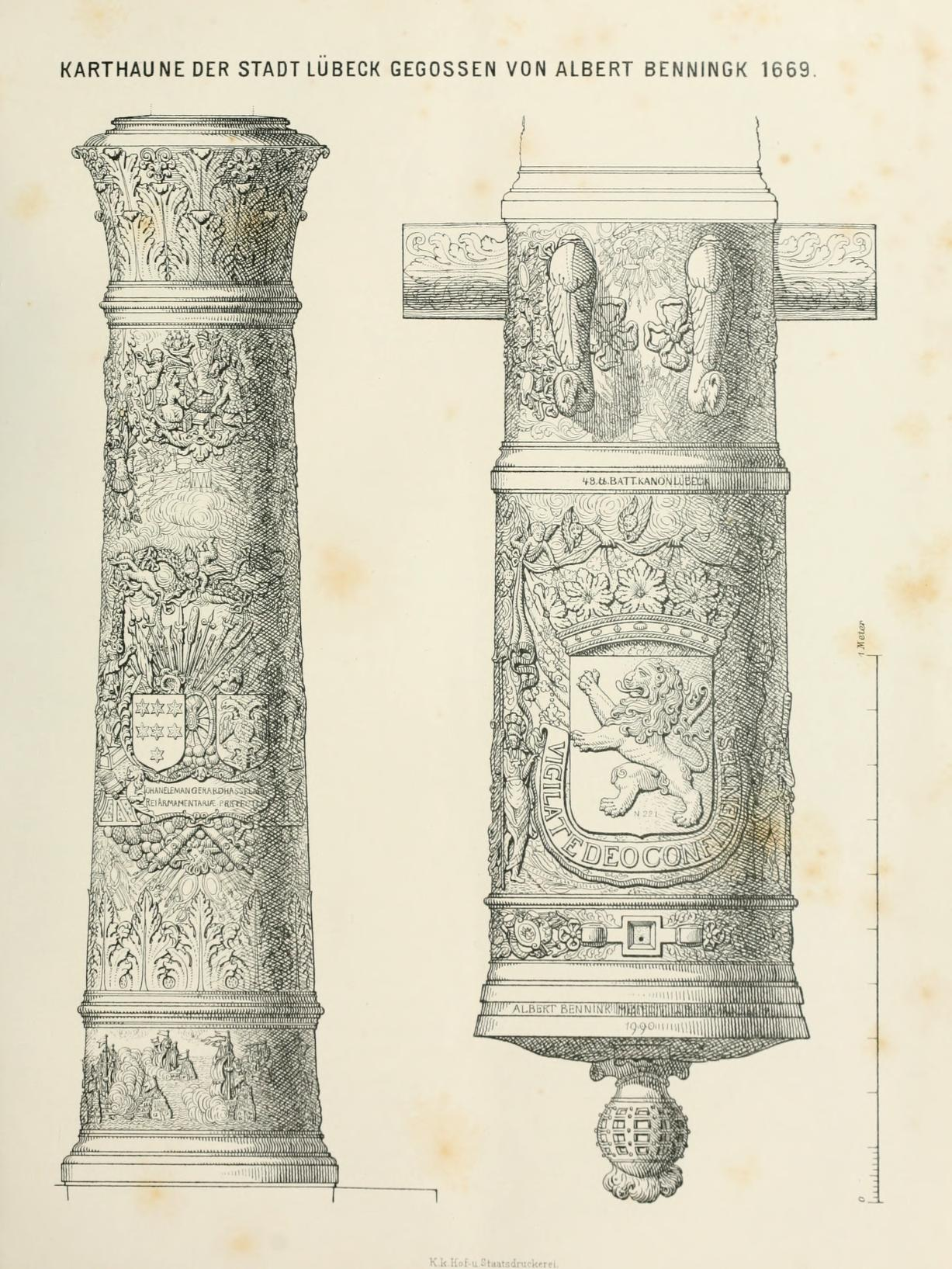 drawing showing the design of a cannon by Albert Benningk in the Heeresgeschichtliches Museum, Vienna